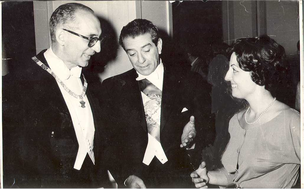 The President of Argentina, Arturo Frondizi; the President of Mexico, Adolfo López Mateos; and Argentine portrait artist Estrella Dupont.